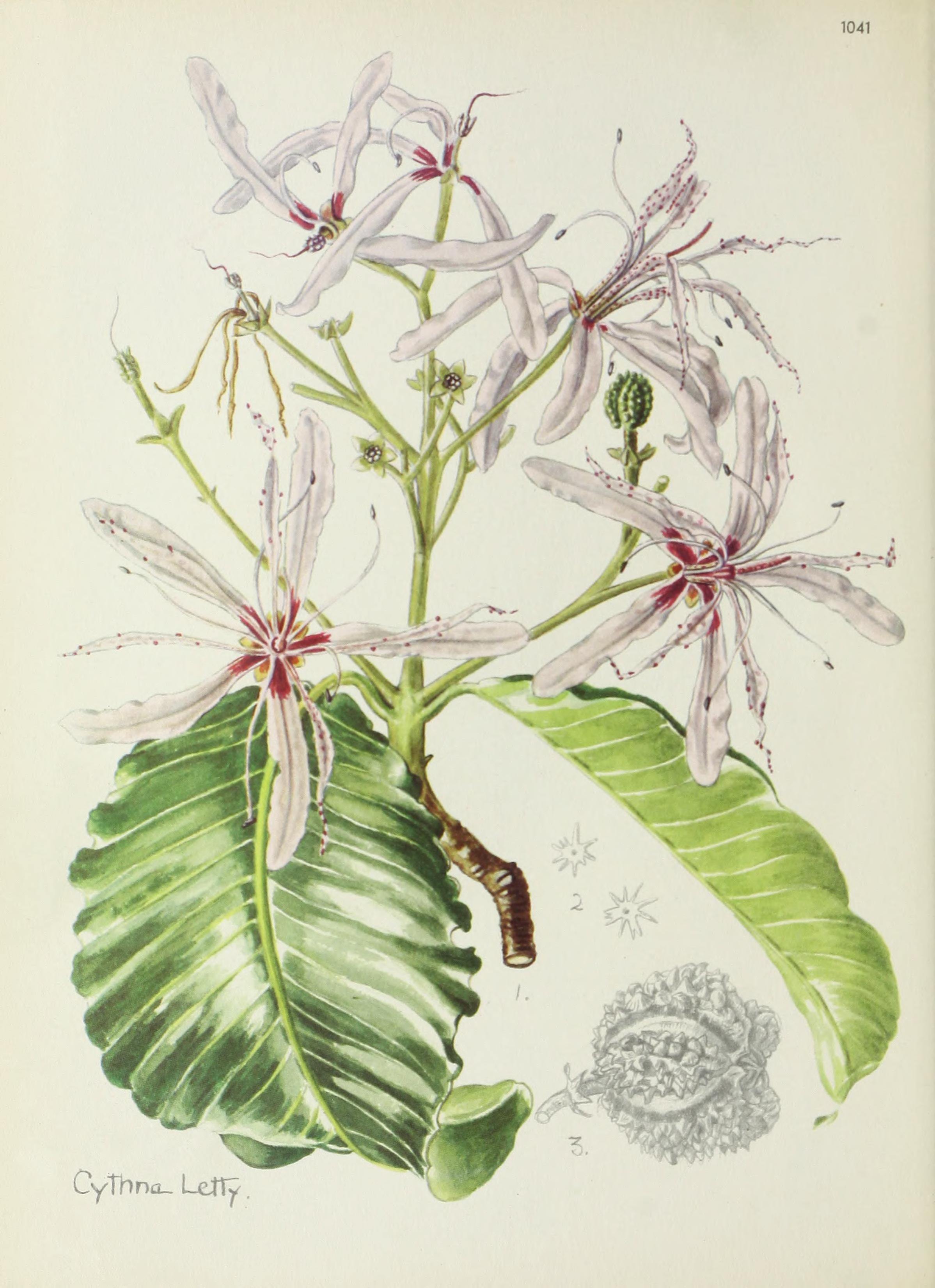 Calodendrum capense (L.f.)Thunb. - Pole Evans, I.B., Flowering plants of (South) Africa, vol. 27: t. 1041 (1947) [C. Letty]